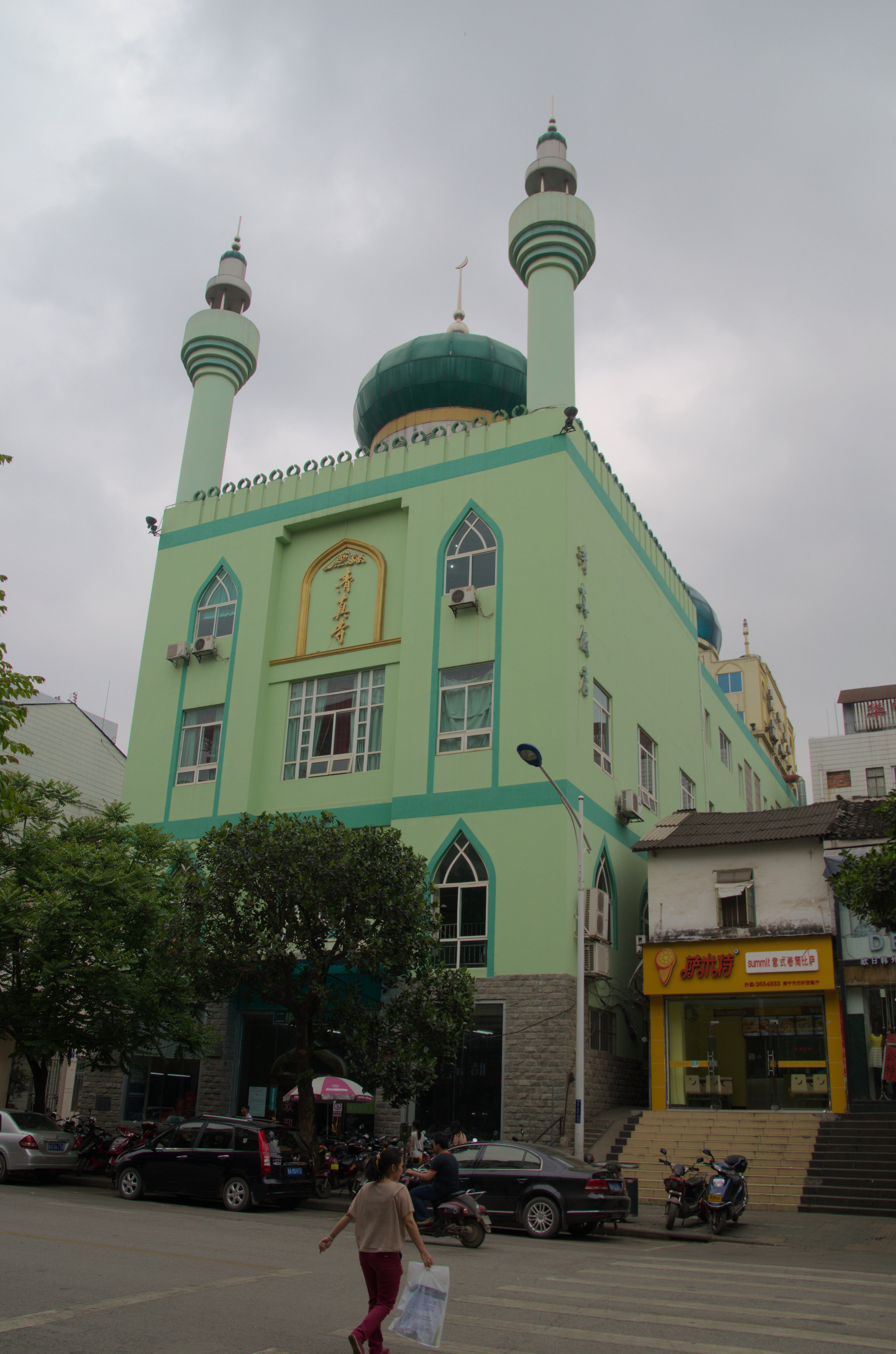 Nanning Mosquee, New China Road (新华路/Xinhua lu), in Nanning capital of the Zhuang autonomous region of Guangxi. There is a restaurant respecting muslim food rules in the building.